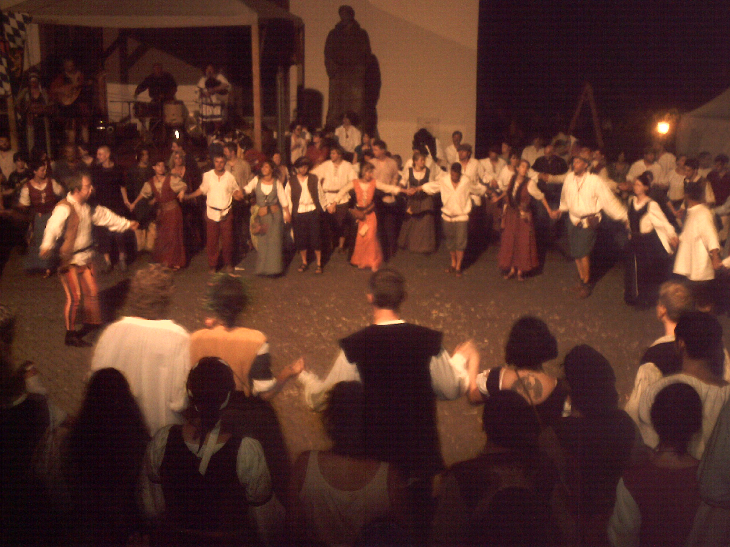 A popular attraction on Bretten Peter and Paul Festival are the folk dances on the church place at which everybody can particapate. The man with the stripped trousers in the middle is the dancing instructor who shows the choreography and gives dance advices.